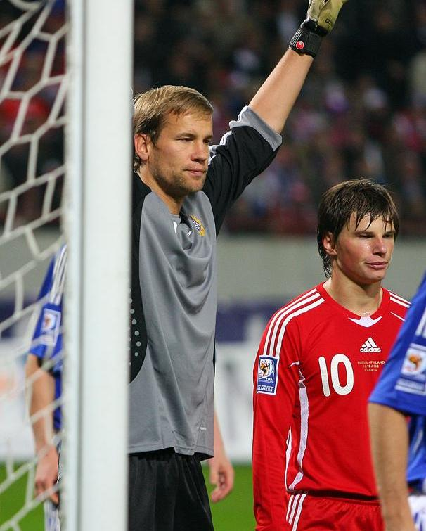 Jussi Jääskeläinen and Andrei Arshavin (match Russia-Finland)